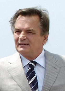 President Haris Silajdžić of Bosnia-Herzegovina arrives at Eagle Base, Bosnia, June 30, 2007, for the turnover of the base from the United States to the government of Bosnia-Herzegovina. More than 100,000 active duty and reserve members have served at Eagle Base since it opened 12 years ago. (U.S. Army photo by Staff Sgt. Jim Greenhill) (Released)